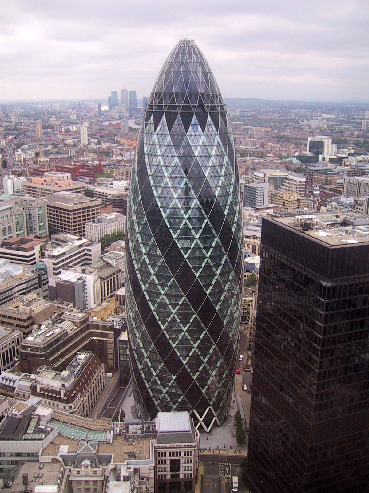 30 St Mary Axe is a skyscraper in London's main financial district. It serves as Swiss Re's London headquarters. Designed by Sir Norman Foster architectural studio, built in 2001-2003.